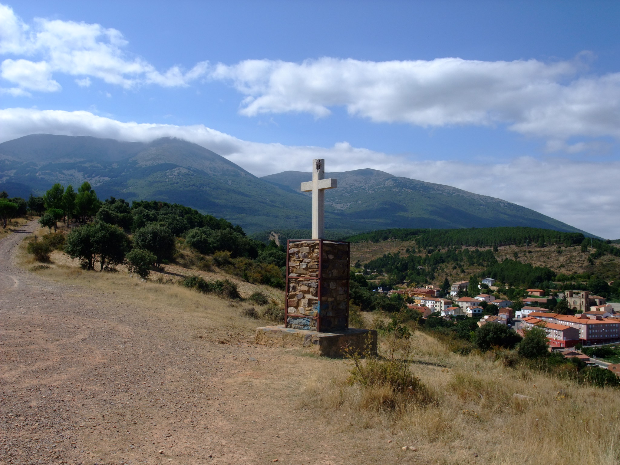 The village seen from the north-east, with the Moncayo behind